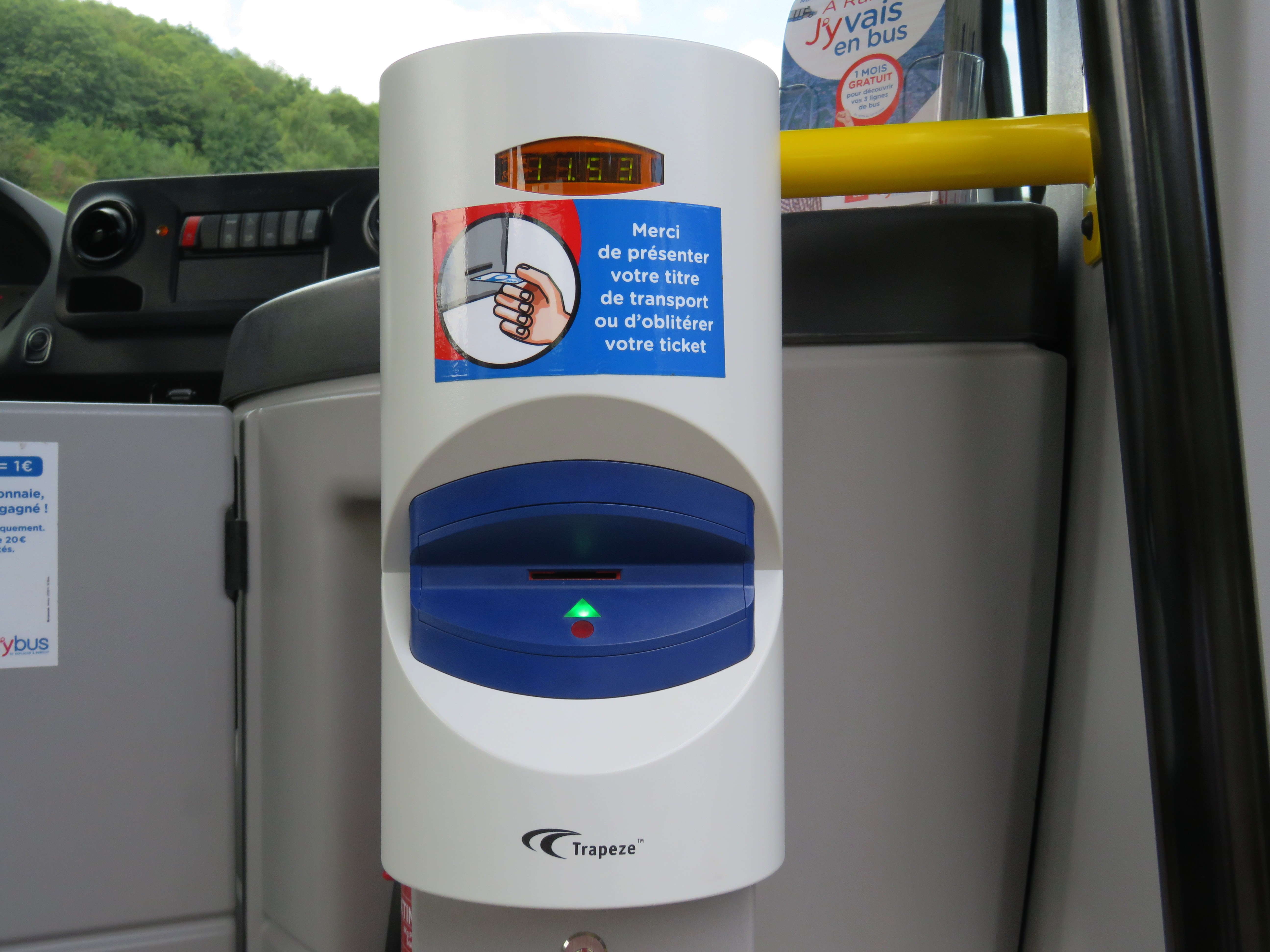 A ticket validation machine onboard of a Dietrich City 29 (n°4 of the French agglomeration community Rumilly Terre de Savoie).